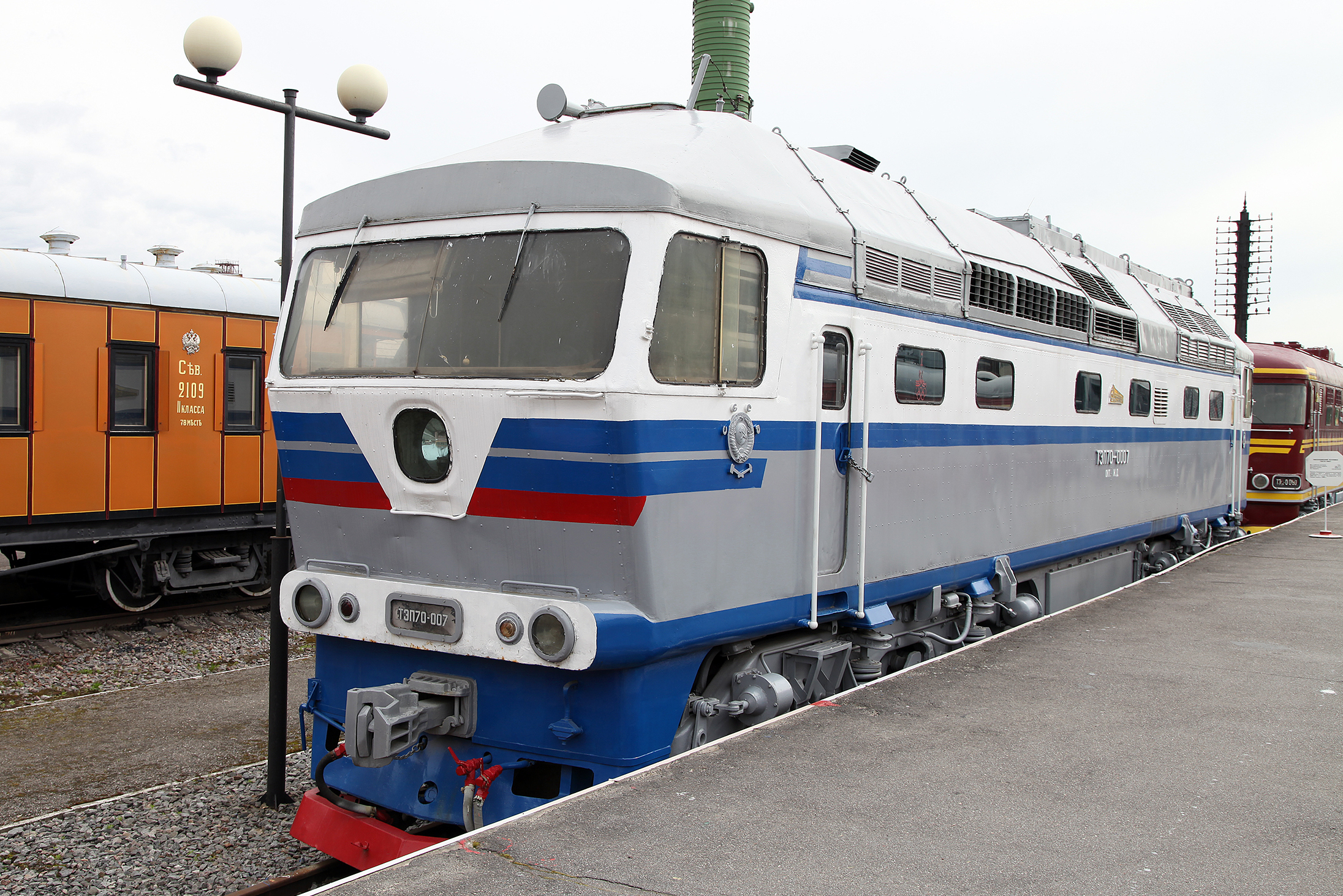 TEP70-007 diesel locomotive